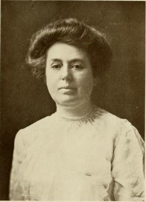 Jane Frances Winn, Kandeler Photo, Johnson, Anne (André) "Mrs. Charles P. Johnson", 1871-. Notable women of St. Louis, 1914; (Kindle Location 4402). [St. Louis, Woodward.]